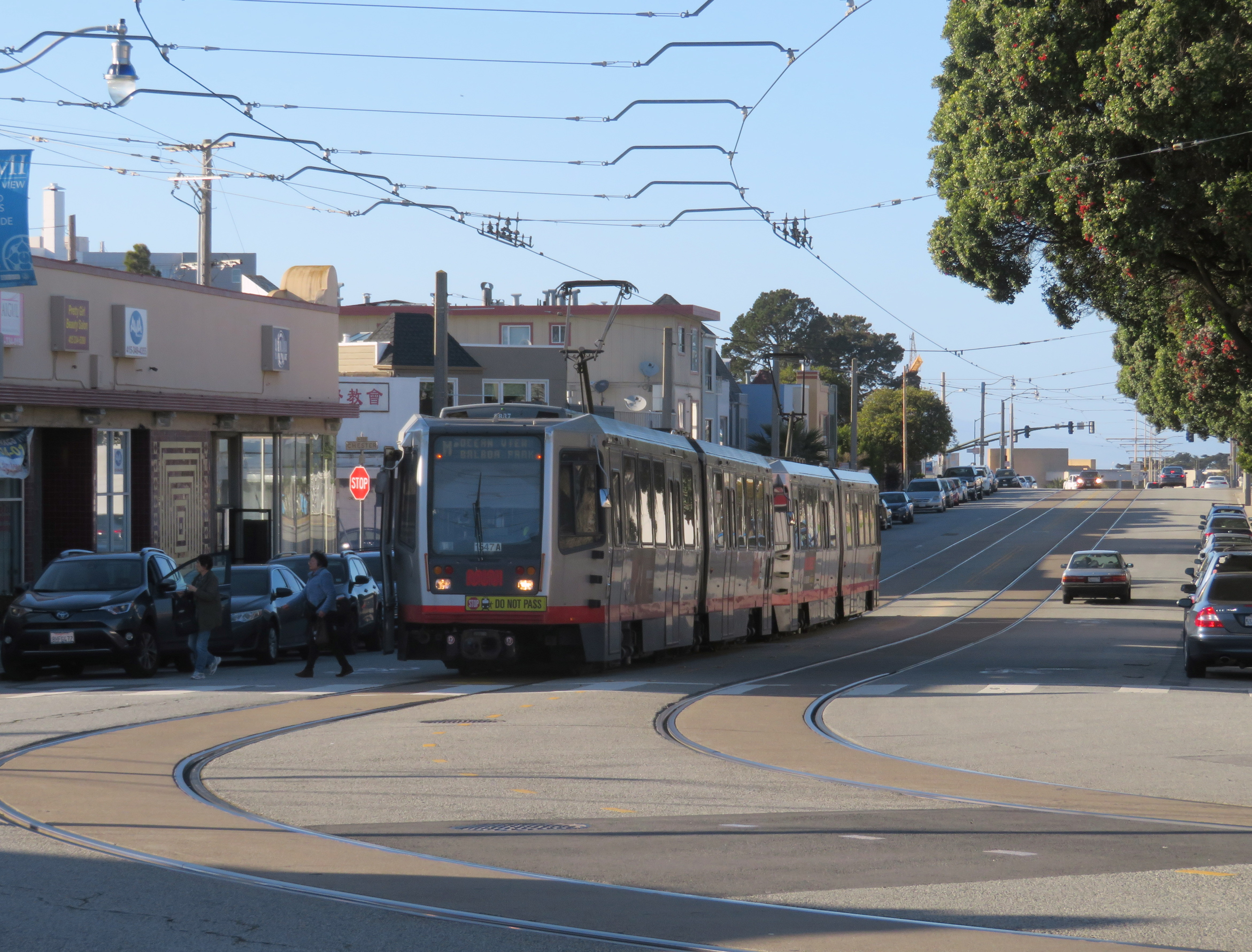 An outbound train at 19th Avenue and Randolph in February 2019